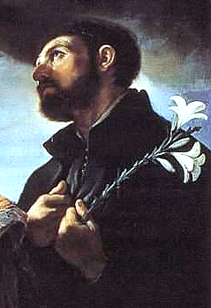 Francis Xavier, fragment of St Gregory the Great with Sts Ignatius and Francis Xavier